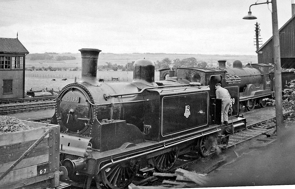 Dingwall Locomotive Depot: a Caledonian 0-4-4T. View westward at the small depot south of Dingwall station: a smart ex-Caledonian 2P 0--4-4T No. 55199 - with a member of staff preparing for the next job. (See also NH5558 : Dingwall Engine Shed, with locomotive).